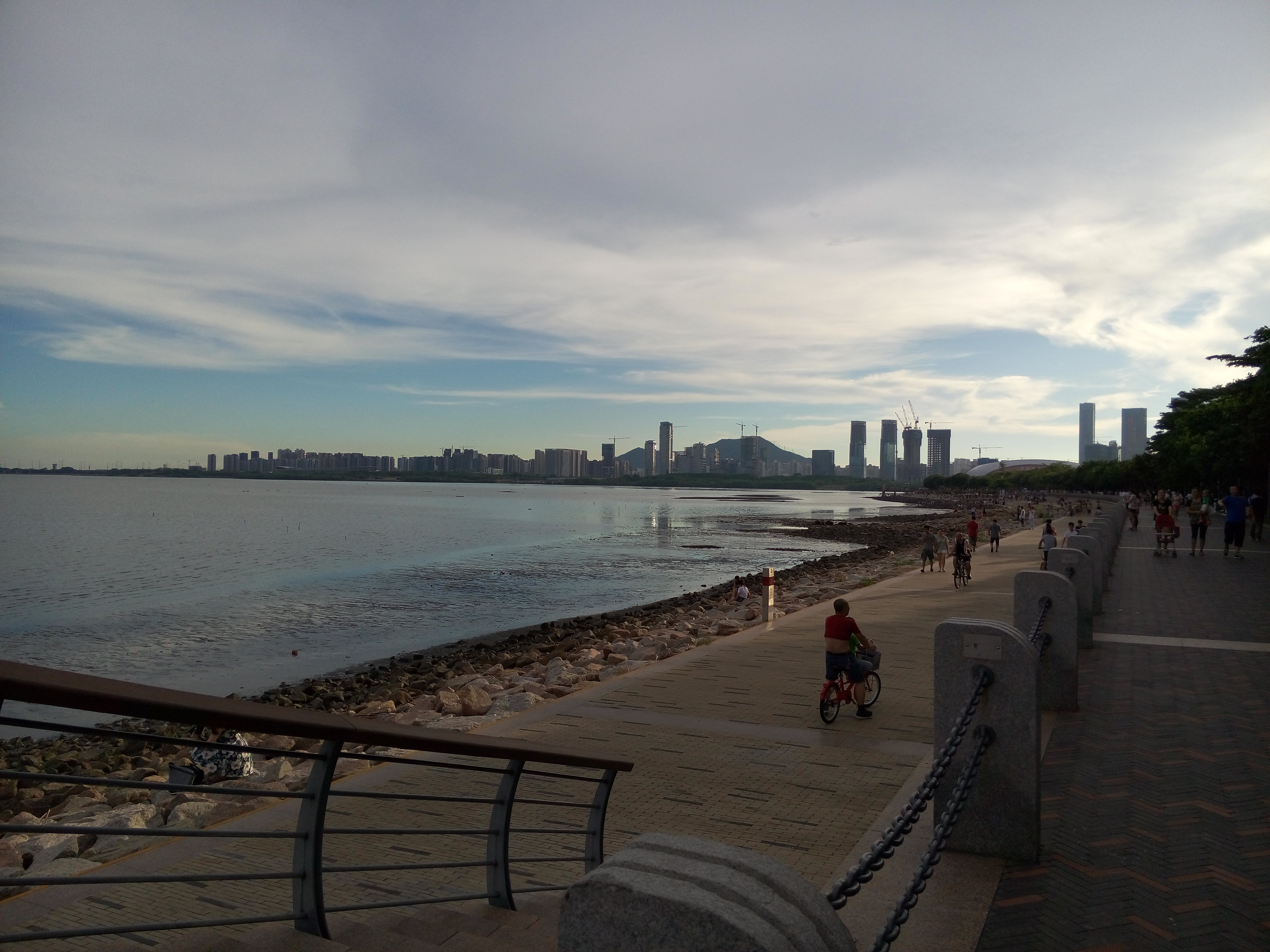 From Shenzhen Bay Park, Jun.20 2015